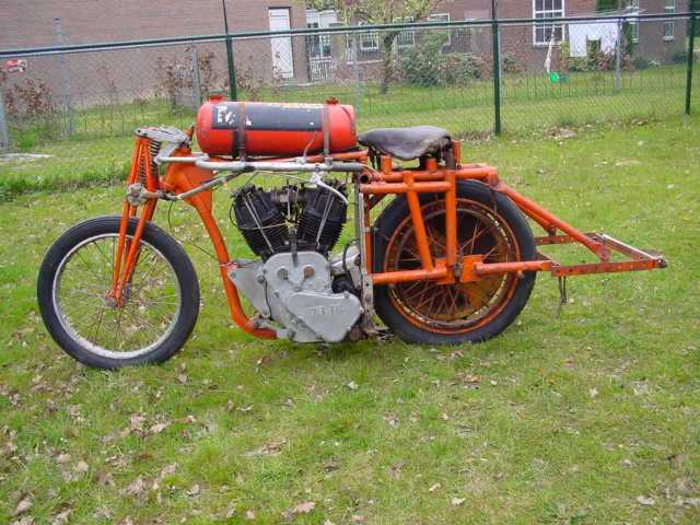 Meier BAC motorcycle.